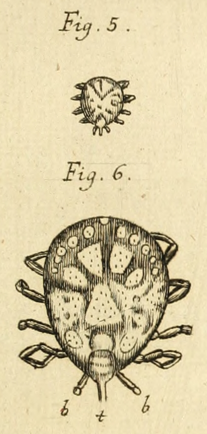 Acarus rhinocerotis De Geer, 1778 from original description